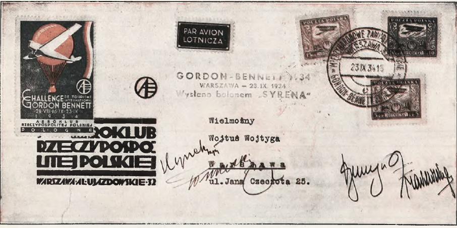 The balloon mail from Gordon Bennett Cup 1934.